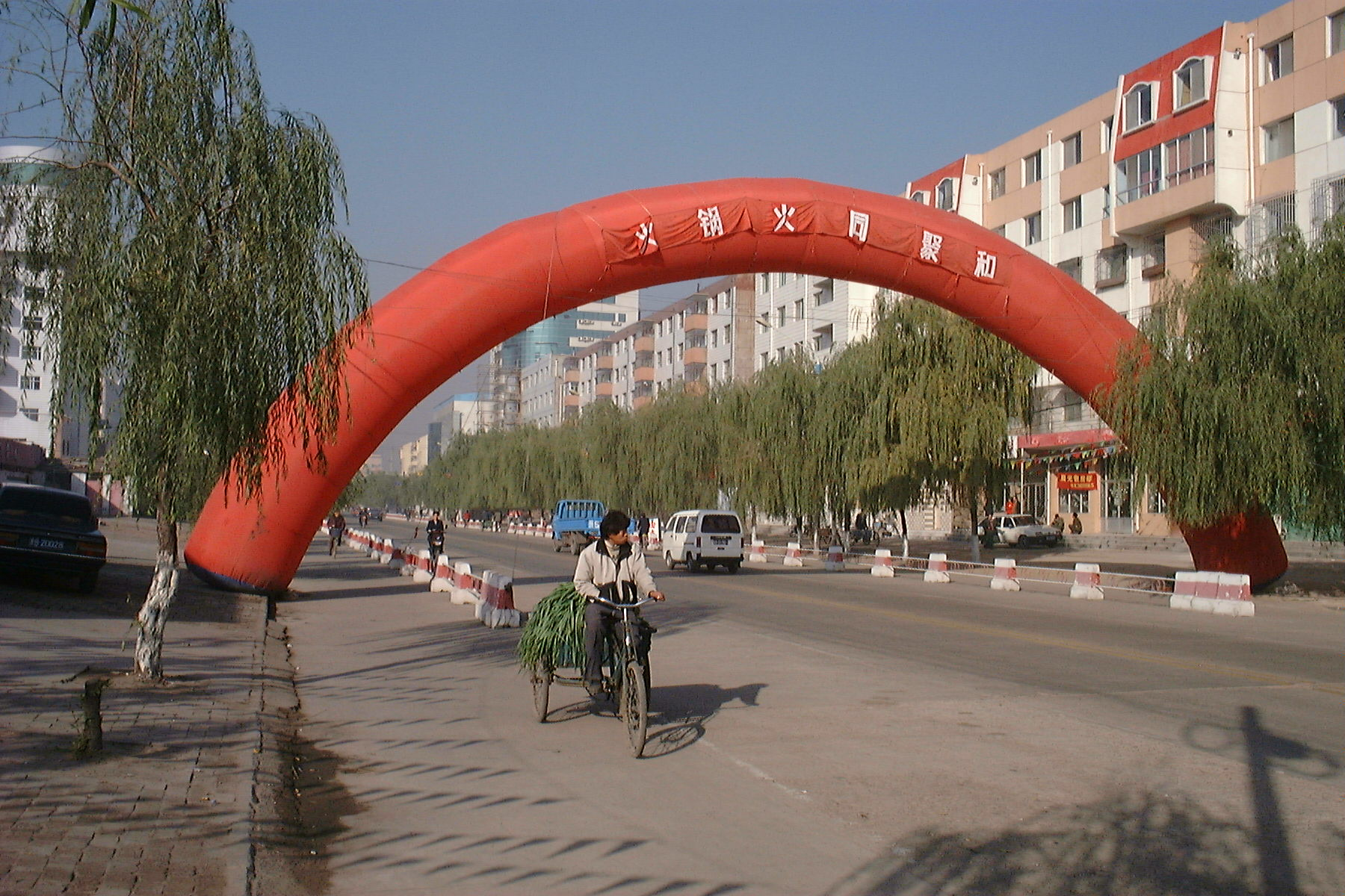 Street arch in Datong, Shanxi, China